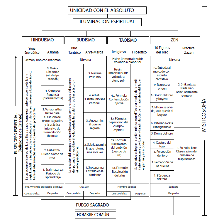 Gráfica comparativa de tradiciones espirituales de oriente